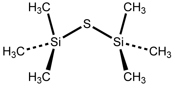 Structure of bis(trimethylsilyl)sulfide